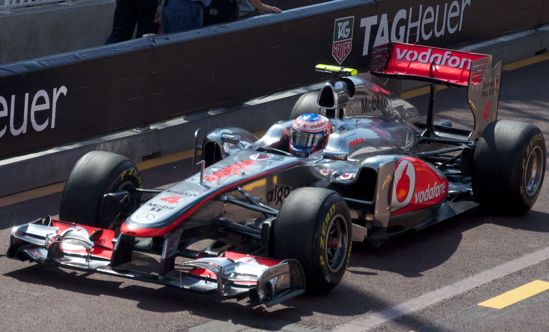 Monaco Grand Prix 2011